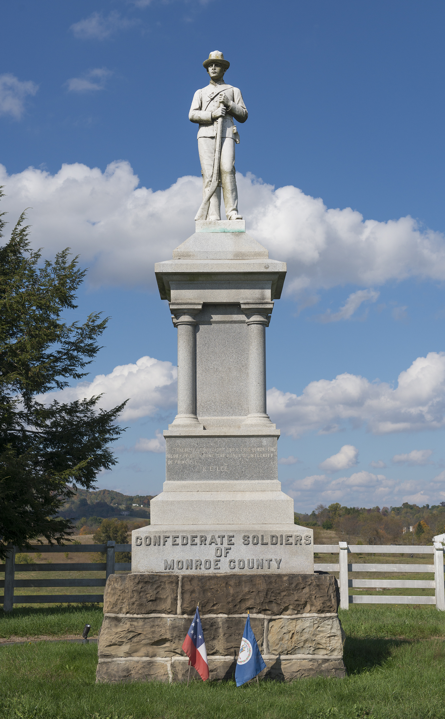 Front view of the statue